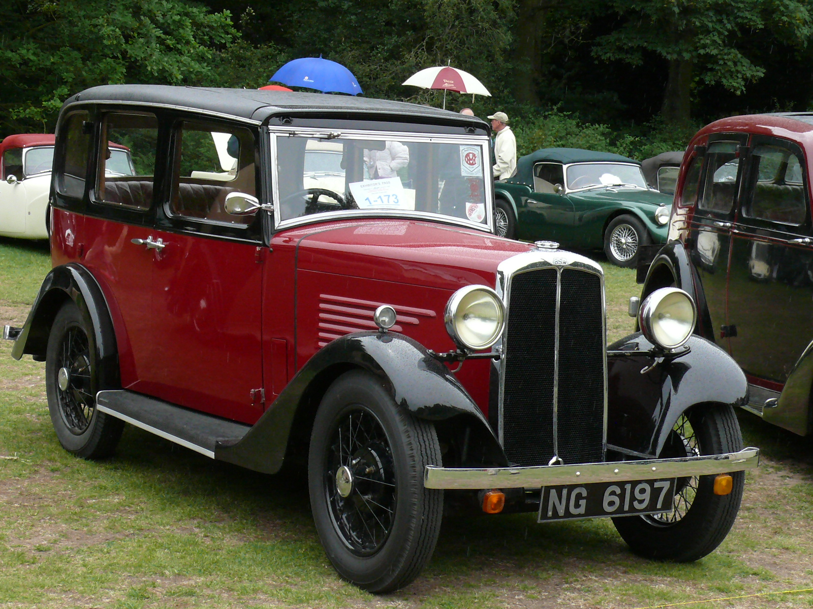 BSA Ten saloon 6-light [NG 6197] Daimler & Lanchester Owners Club, International Rally, Queen's Birthday weekend, Sandringham, Norfolk Sunday 12 June 2011 (DVLA) 1124cc, reg 9 January 1934